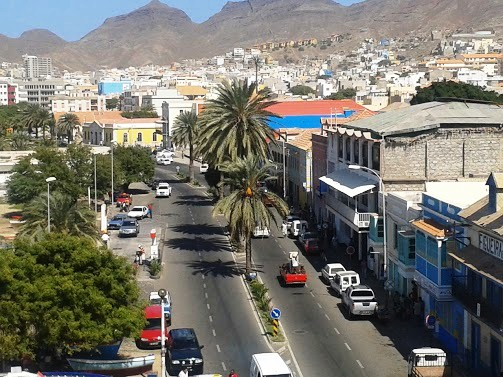 Rua Praia, Mindelo from Torre de Belém